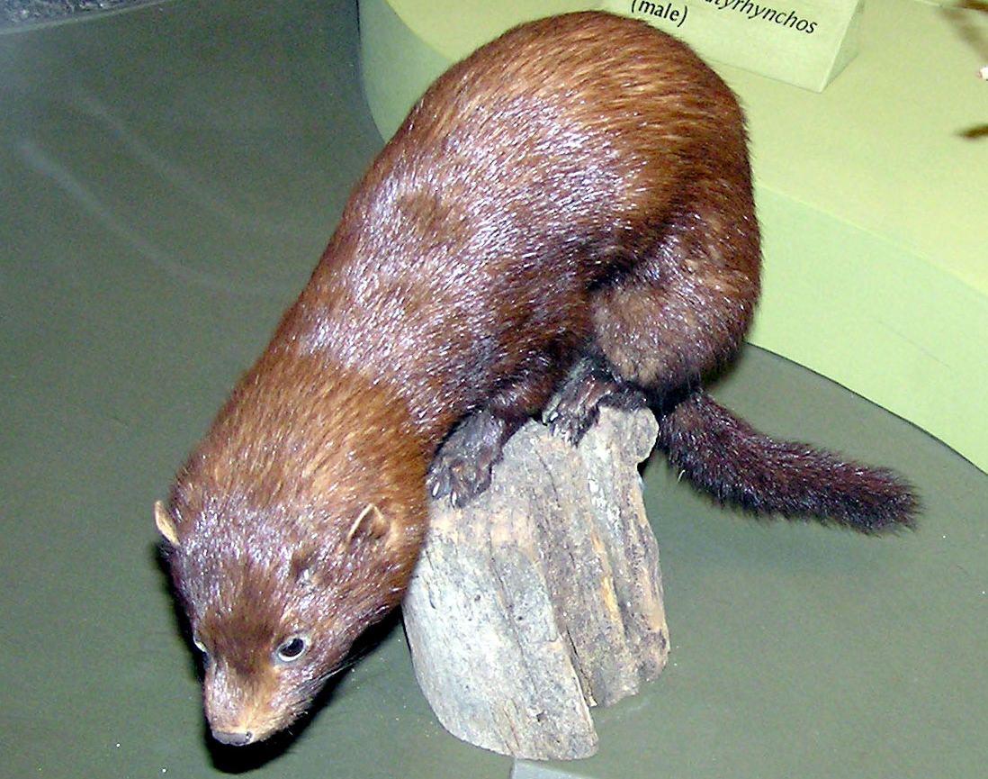 American Mink Mustela vison (stuffed) in Bristol City Museum, Bristol, England. Taken by Adrian Pingstone in February 2006 and placed in the public domain.